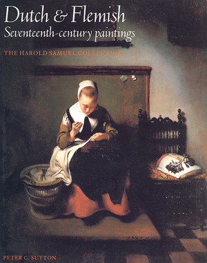 Cover of Dutch & Flemish Seventeenth-Century Paintings: The Harold Samuel Collection. Shows Nicolaes Maes, Young Woman Sewing 1655.